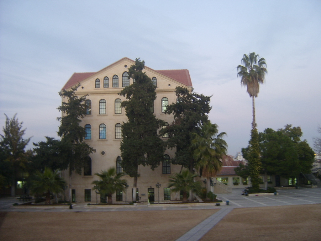 Stickler Building at Tarsus American College, Tarsus, Turkey Photo taken by Emir Aydin, 2006